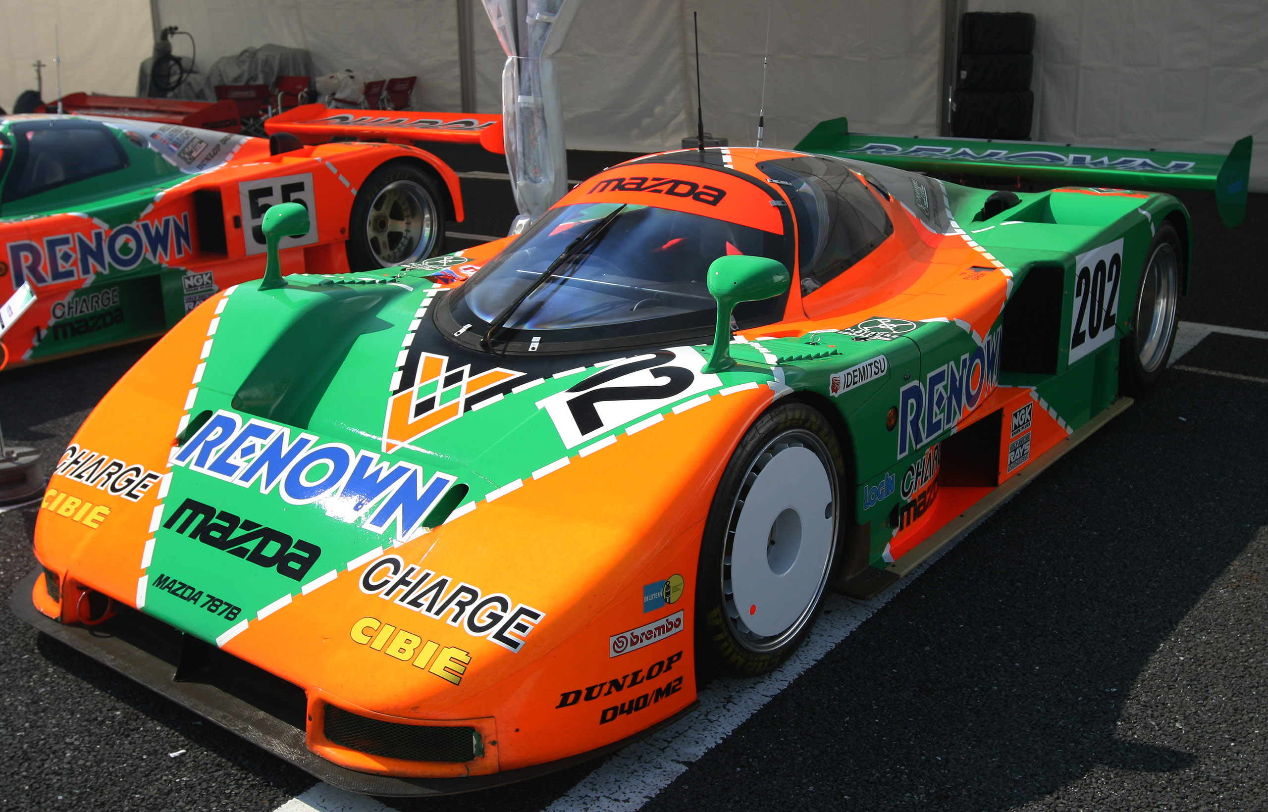 Motorsport Japan 2008: the Mazda 787B-003 (JSPC ver.)